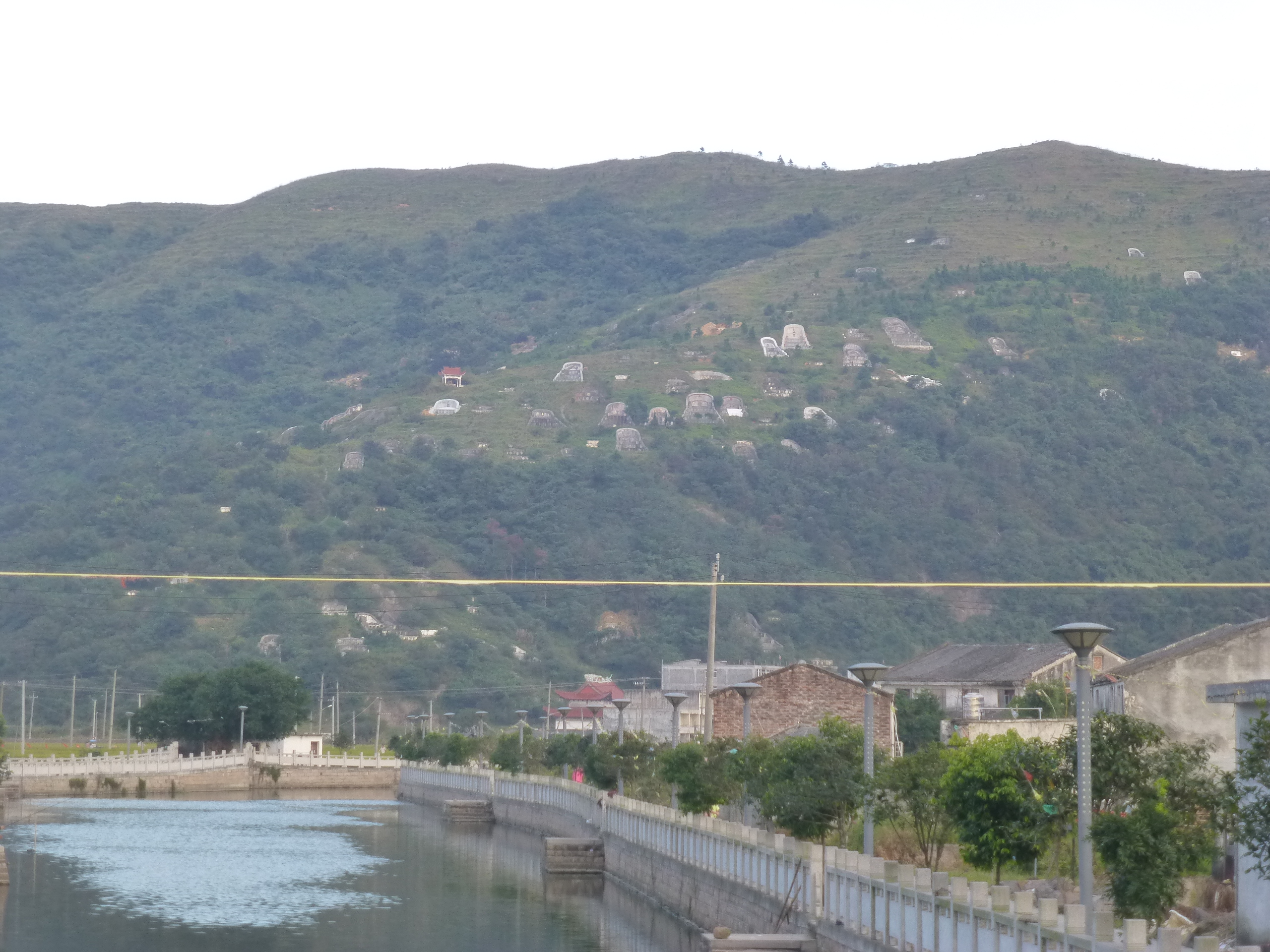 Jinxiang Town, Cangnan County, Zhejiang, China. Pictures taken along the main road on the east side of the town center, between Xiazetang Village and Qiantoulian Village